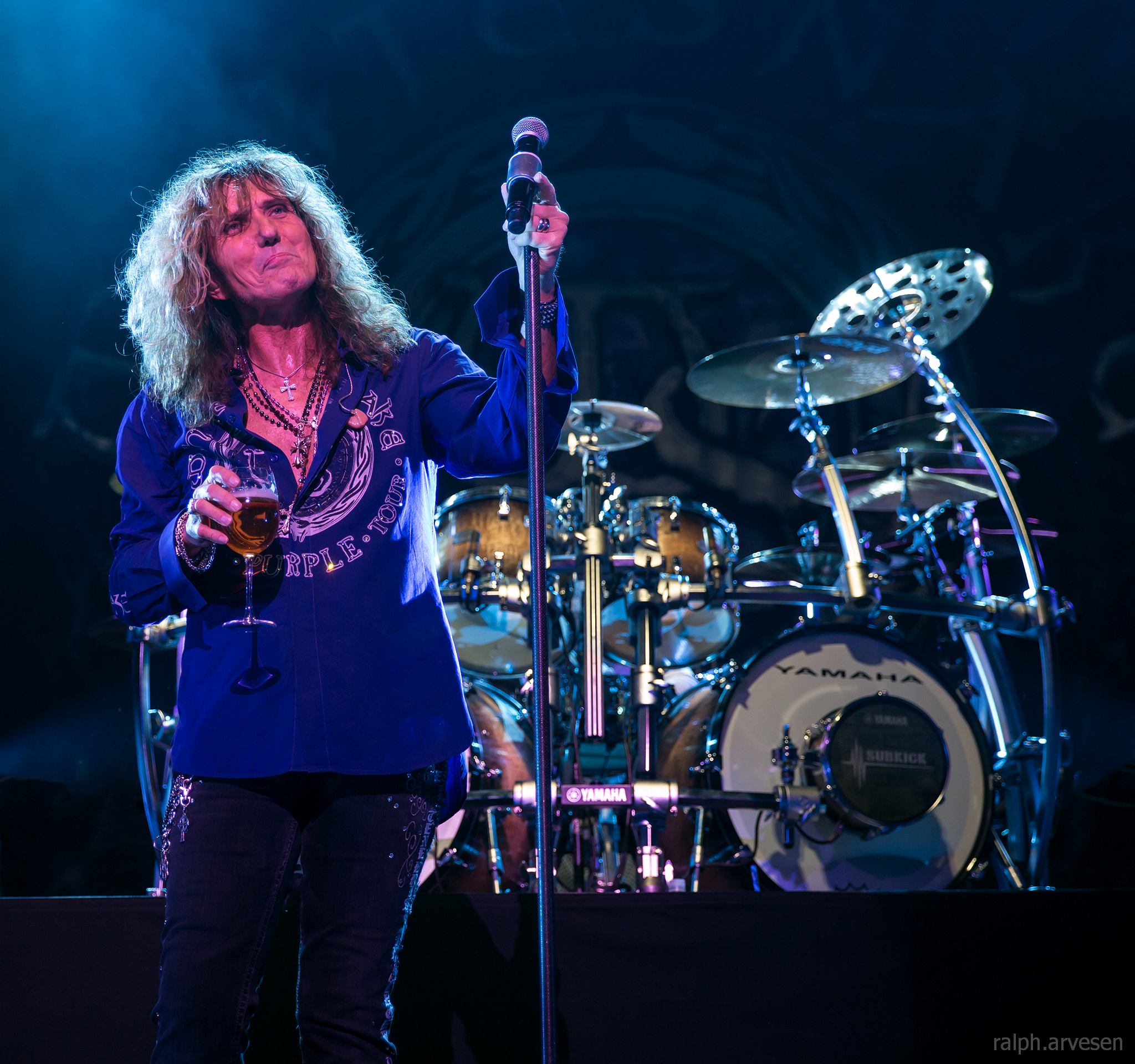 Whitesnake performing in San Antonio, Texas, 2015-06-23